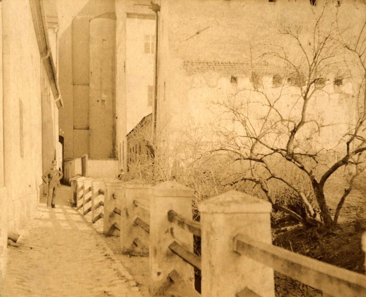 Street Šerhovní in Litovel with the water stream Nečíz, from the west.